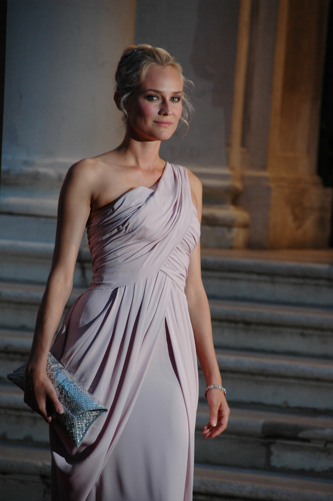 Diane Kruger at 2008 Venice Film Festival.